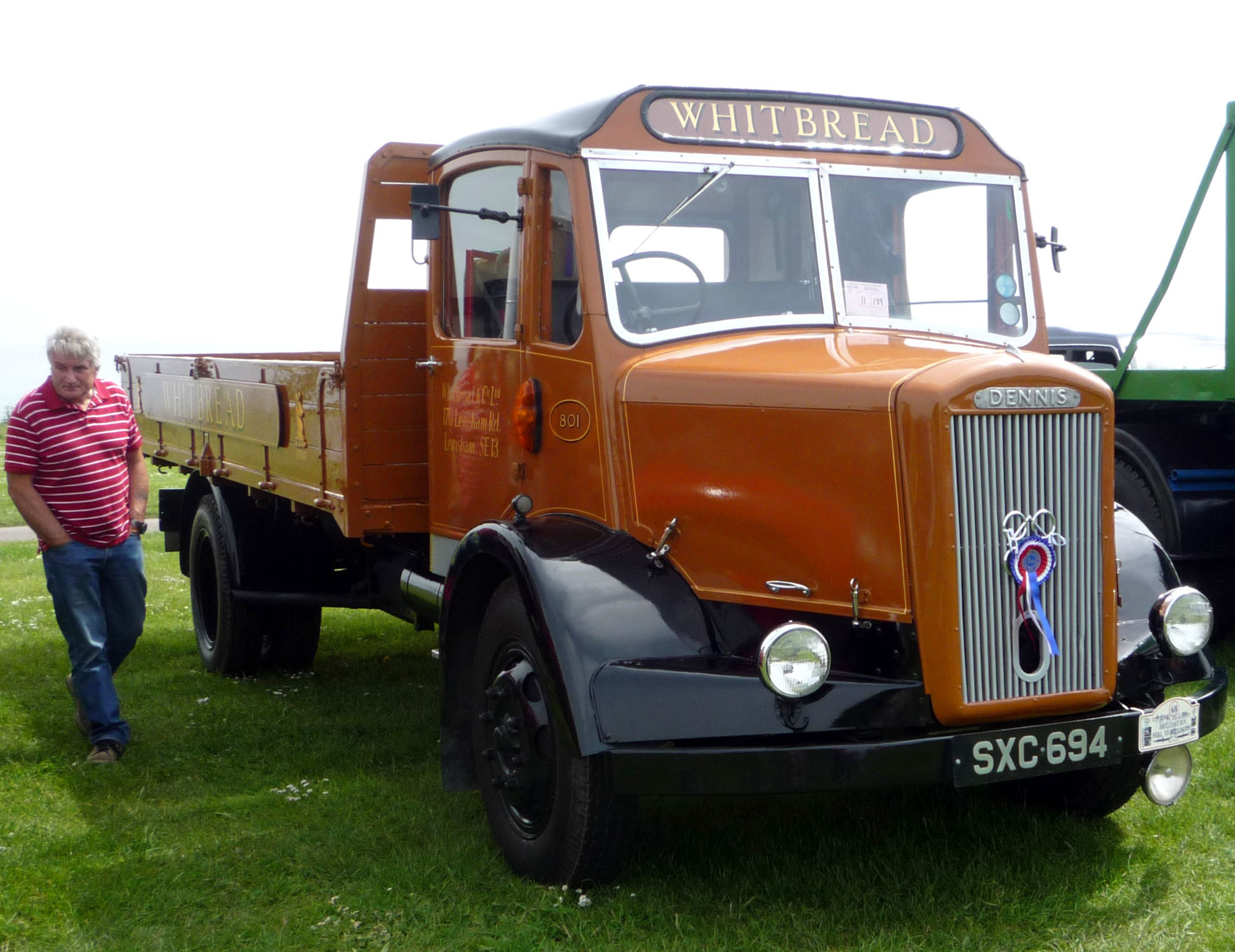 1956 (June) Dennis Pax, SXC 69448th East Coast Hull to Bridlington, Classic Vehicle Rally